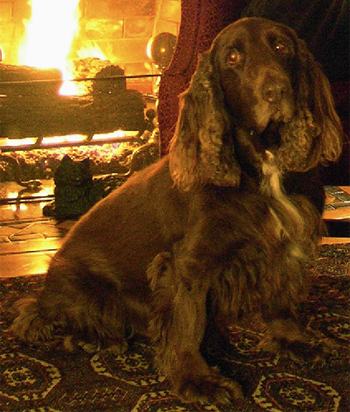 Picture of my field spaniel infront of the fireplace. Back when it was taken, it was supposed to be a family photo, but he's the only one who looked decent, so now it's just a shot of him. He's dead now, and, as a result, not quite as handsome, but for 14 years, he provided steady, faithful company and was a full-fledged family member.